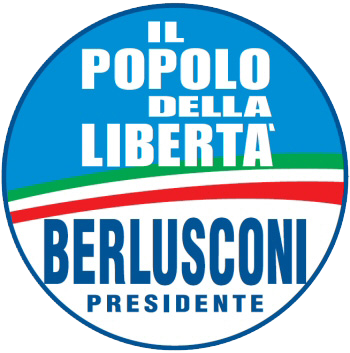 PdL logo